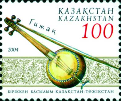 An image of a Gizhak on a Kazakhstan stamp, 100, 2004